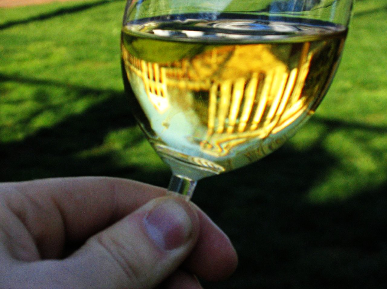 A glass of Chardonnay. Thomas Jefferson's Rotunda is reflected in the wine.